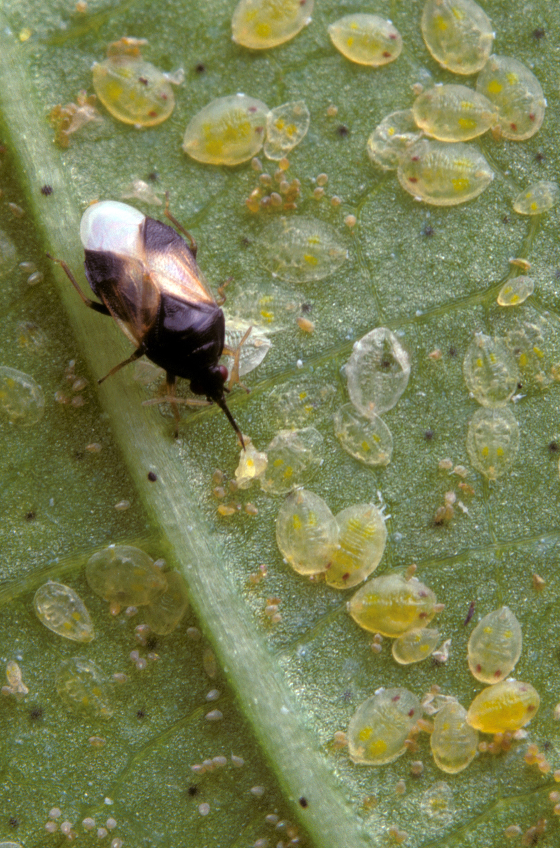 Pirate bug (Orius insidiosus [Rhynchota: Anthocoridae]) feeding on white fly nimphs